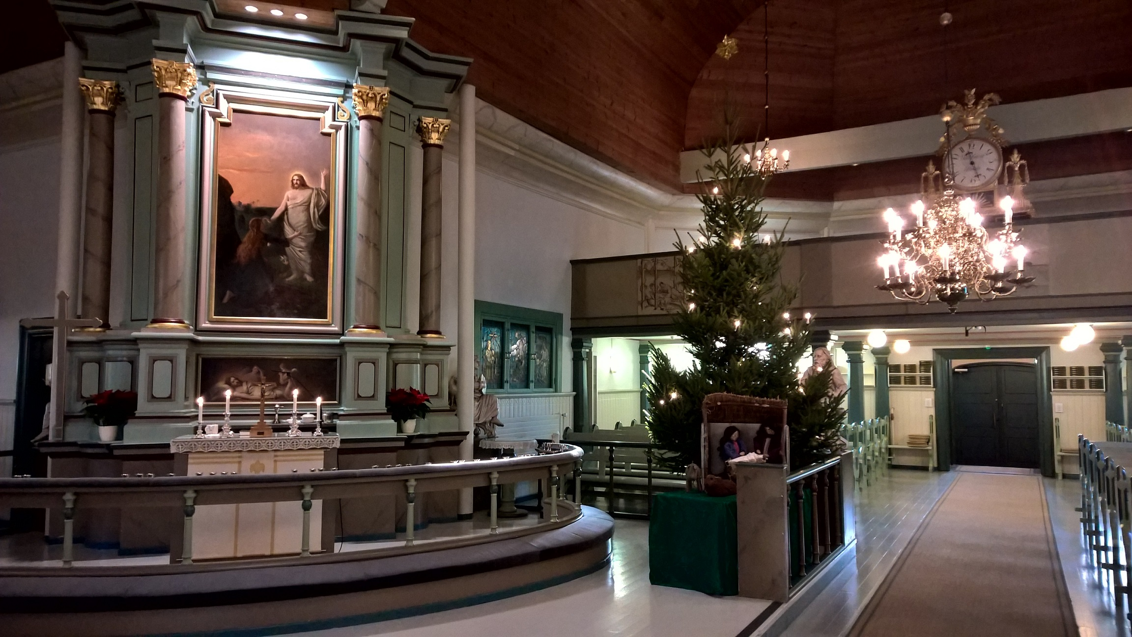 Altar of Ilmajoki church